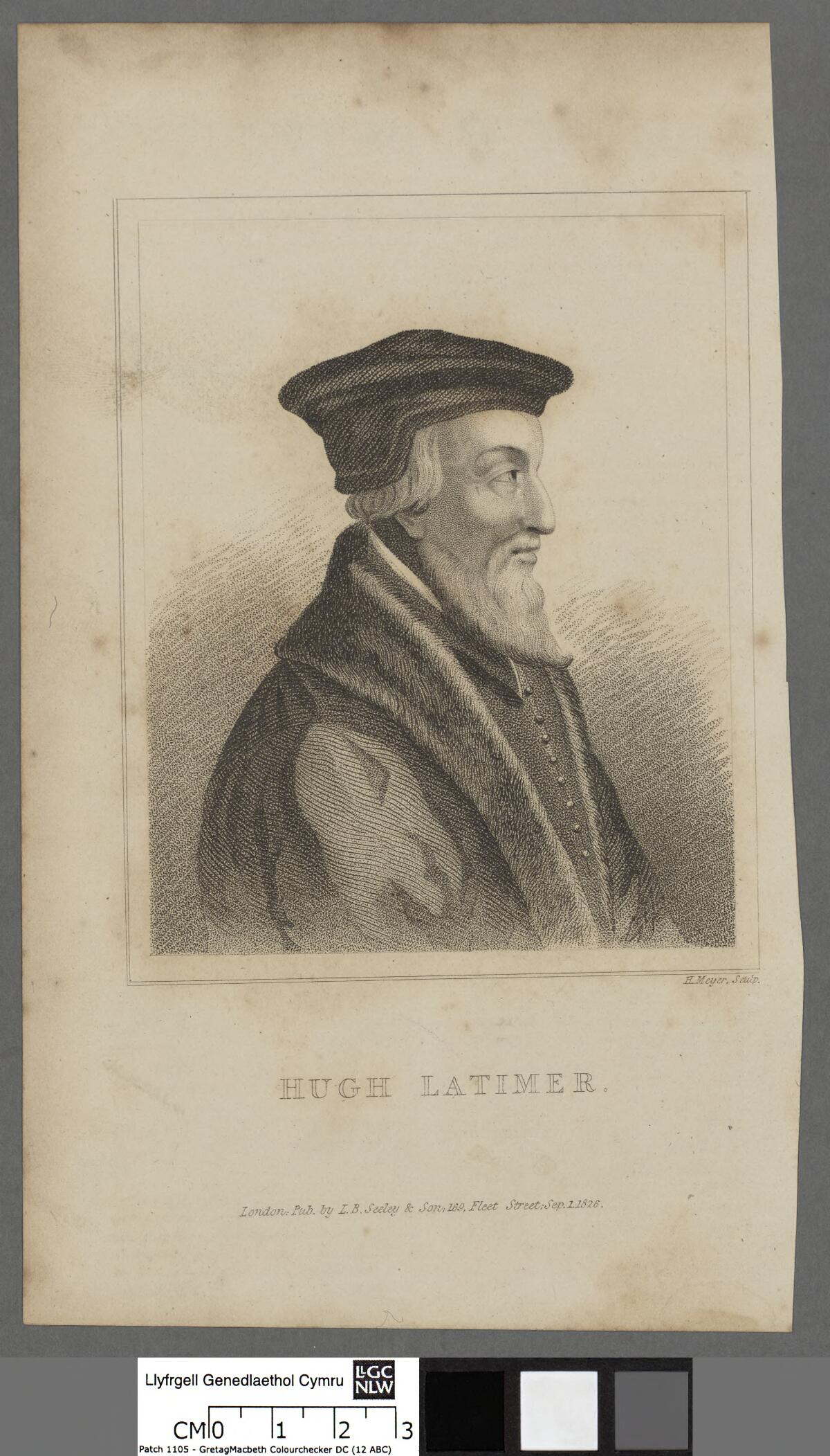 A portrait from the Welsh Portrait Collection at the National Library of Wales. Depicted person: Hugh Latimer – British bishop